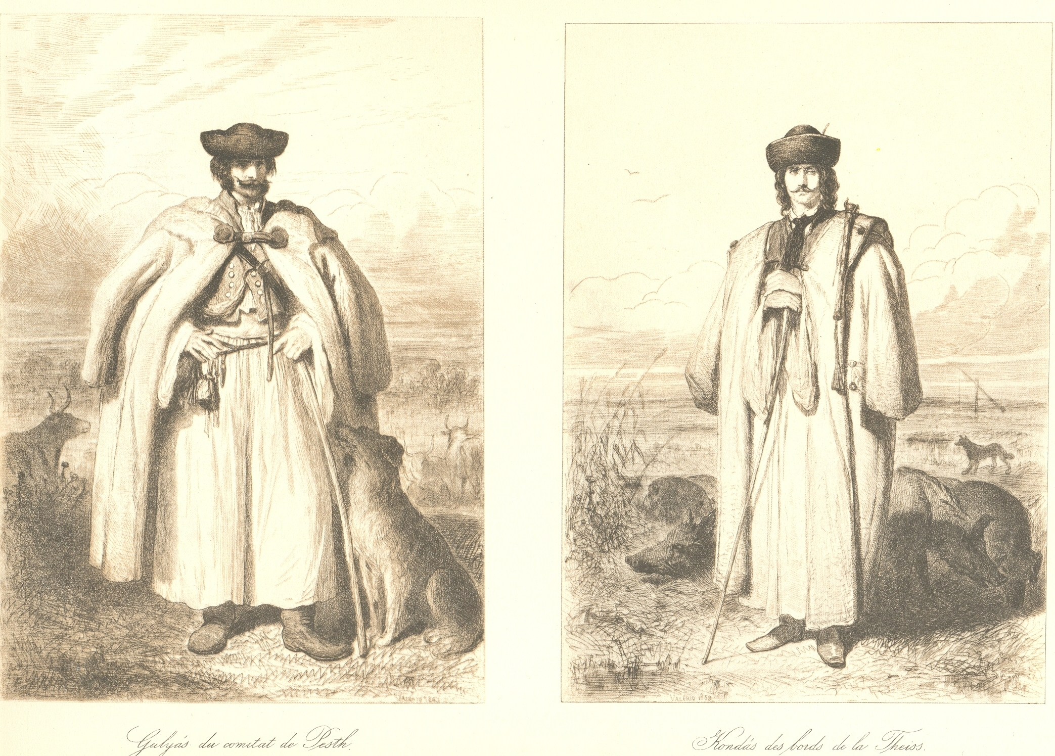 Herdsmen from the Great Hungarian Plain, 19th century, Hungary